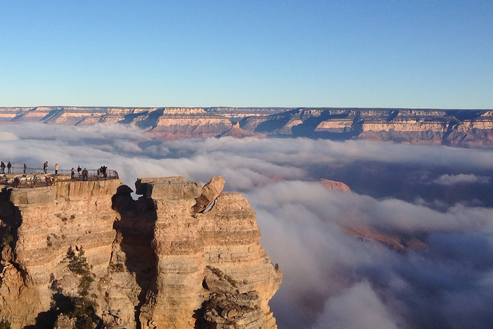 Fog Fills the Grand Canyon